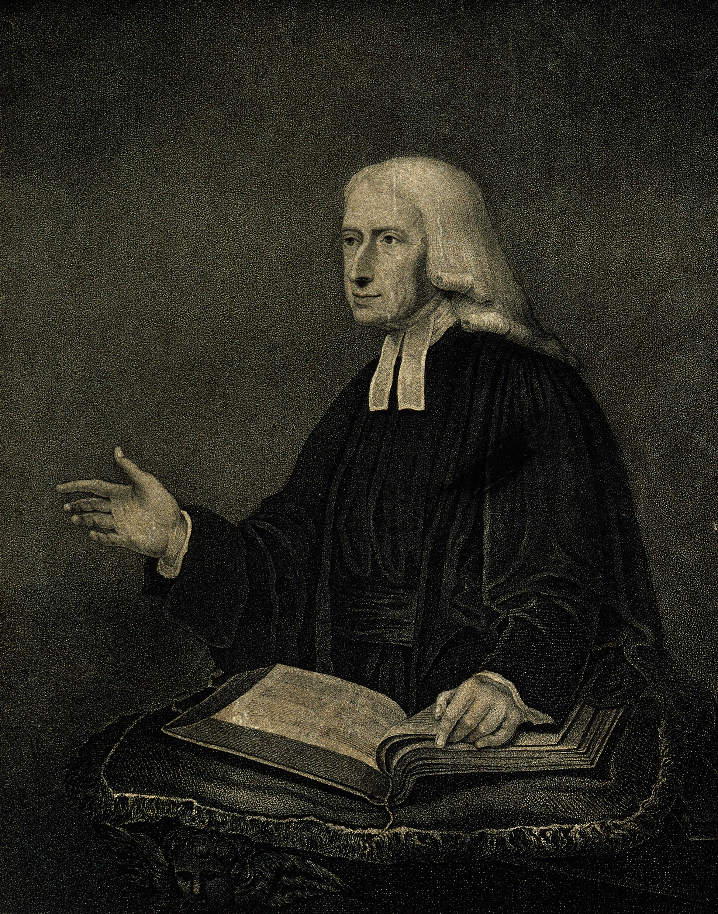 John Wesley. Stipple engraving after W. Hamilton, 1788. Iconographic Collections Keywords: portrait prints; stipple prints; John Wesley; William Hamilton